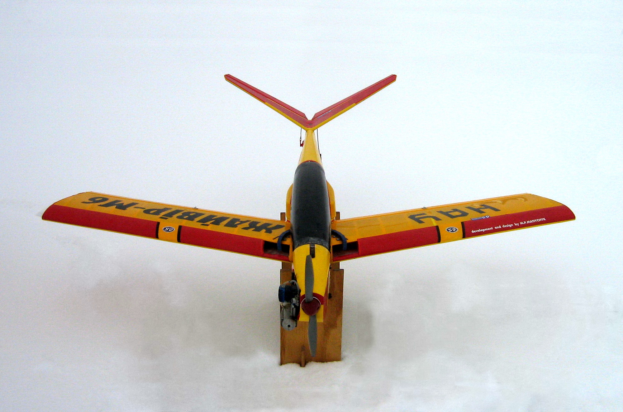 UAV M-6 "Zhayvir" during winter flights at the airfield near Byshova (Kiev region).